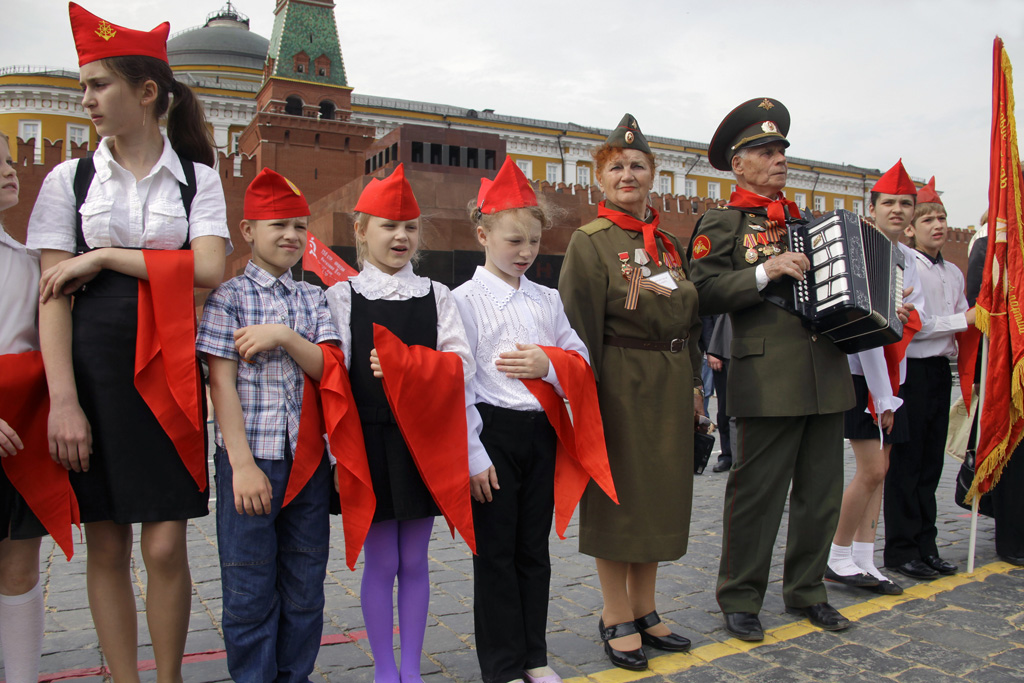 “Young Pioneer induction ceremony held at Moscow's Red Square”. Participants attending the Young Pioneer induction ceremony at Vladimir Lenin's Mausoleum on Moscow's Red Square.